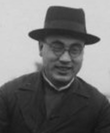 Bishop Paul Yü Pin at 1936.